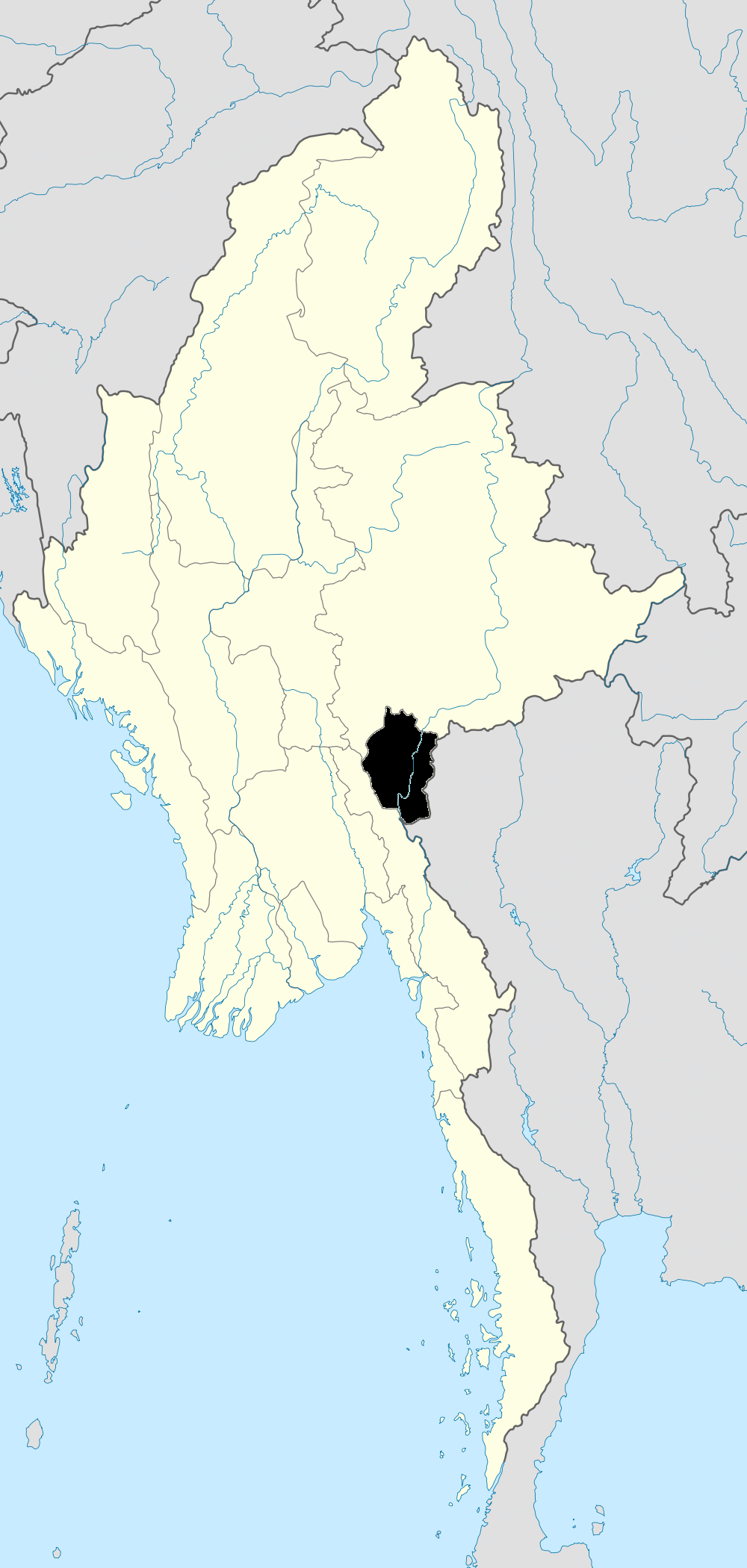 Map showing Kayah in Burma